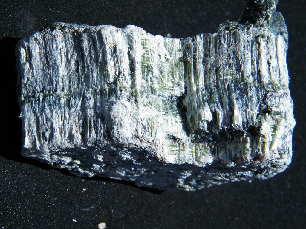 Clinochrysotile (Dimensions: 4" x 2" x 2") Locality: Bell mine, Thetford Mines, Les Appalaches RCM, Chaudière-Appalaches, Québec, Canada Hirsute slab of clinochrysotile with flashes of deep emerald green.